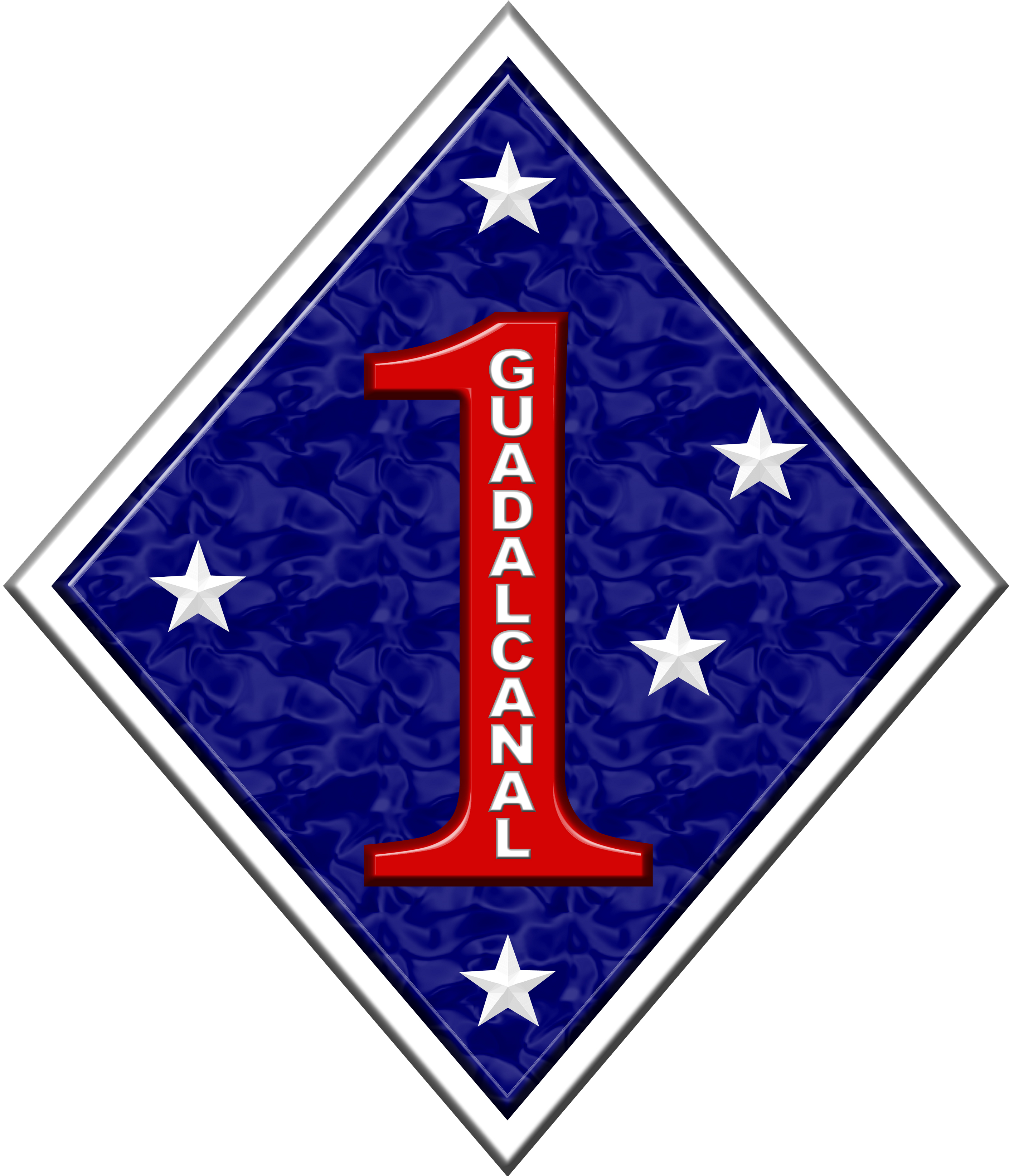 Insignia for 1st Marine Division